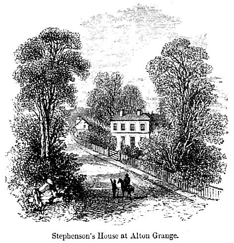 Stephenson's House at Alton Grange, (Alton Hill, Ravenstone) remains largely unchanged today.